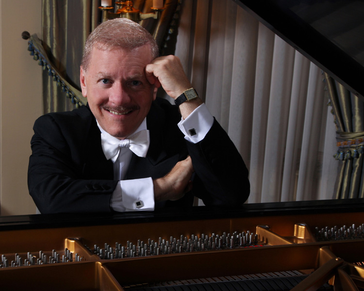 Harrison Gradwell Slater, in his studio, Boston, June 2009